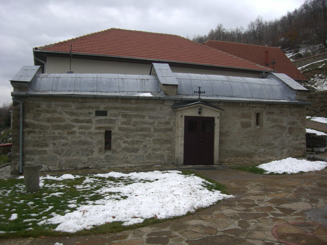 Sokolica Monastery Church of the Virgin Shroud